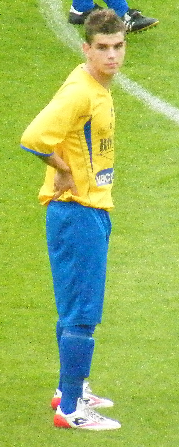 Daniel Kogler Austrian football player